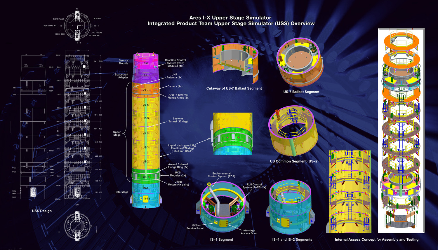 Ares I-X Upper Stage Simulator cutaway graphic